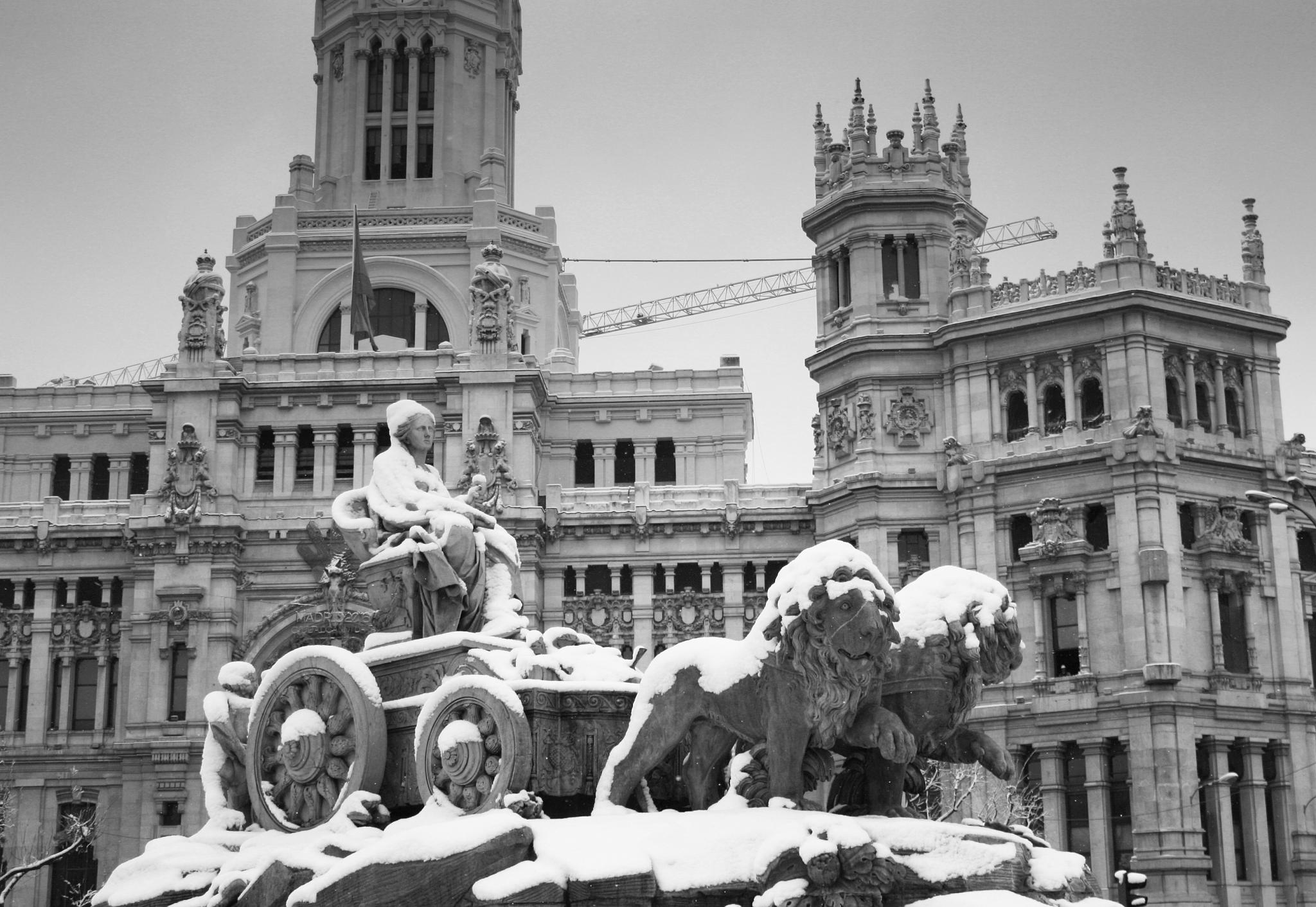 Fountain of Cybele, at Plaza de Cibeles (square) in Madrid (Spain), after a snowfall.